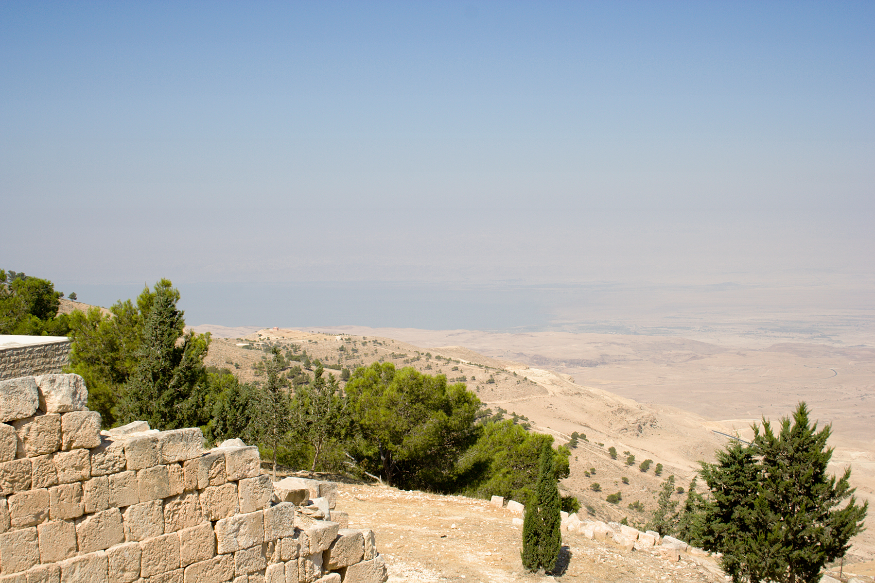 A view of the Dead Sea from atop Mount Nebo, Jordan.